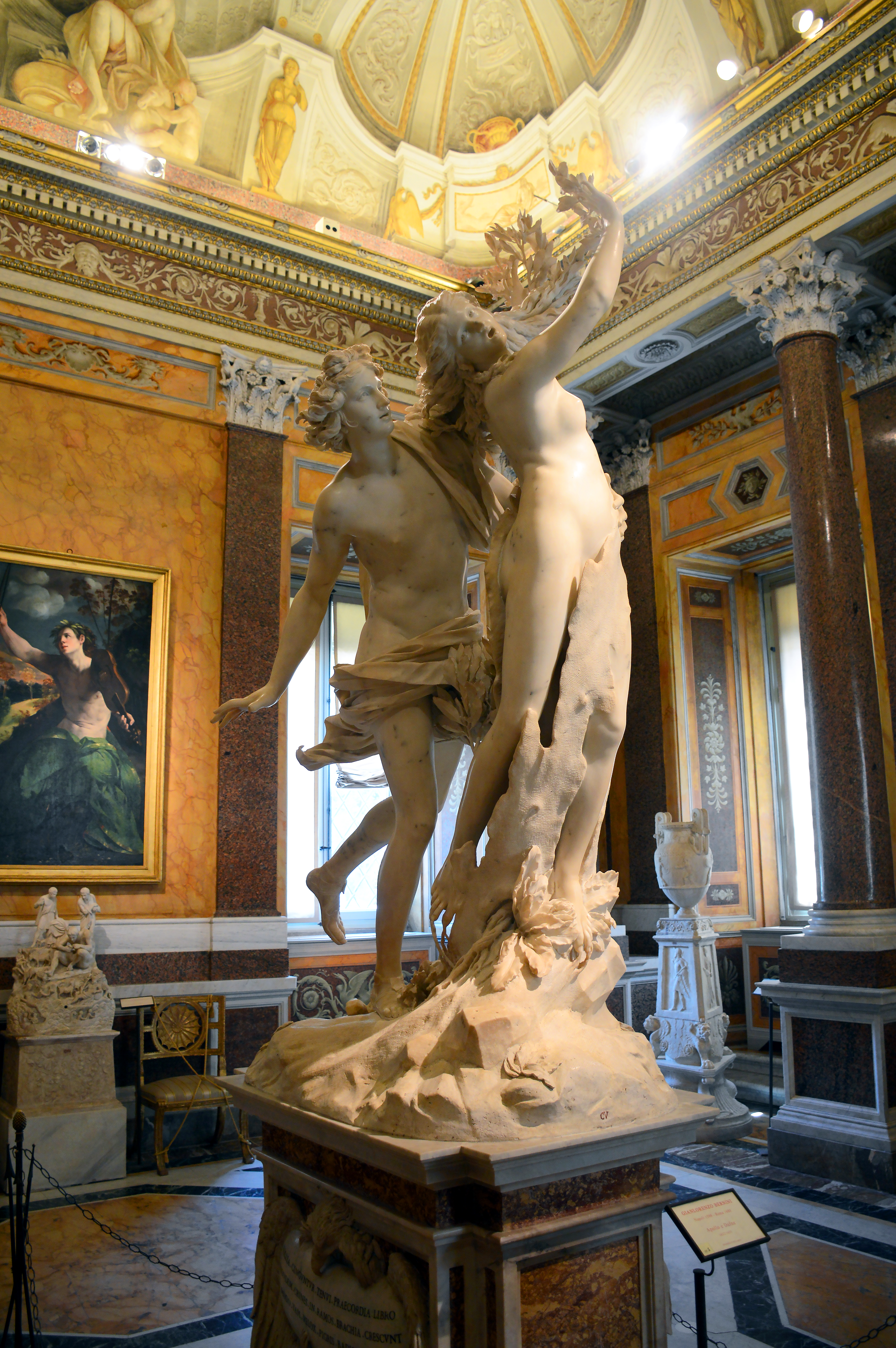 Apollo e Daphne